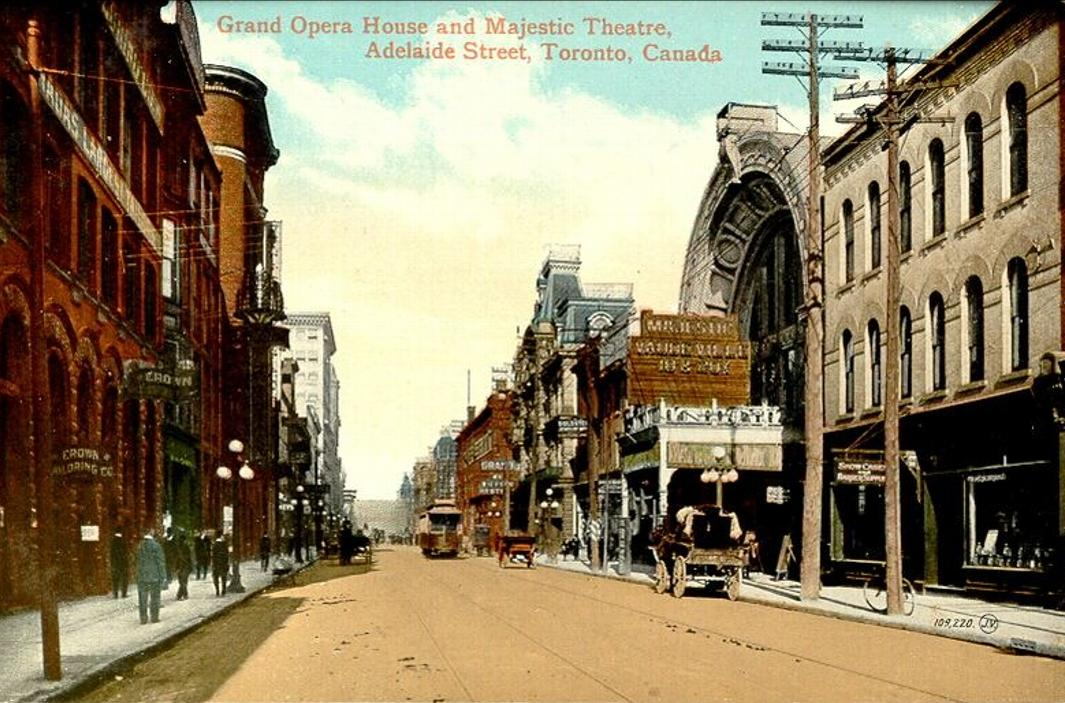 Postcard of Adelaide Street (looking east) in Toronto, Canada, showing the Grand Opera House and Majestic Theatre on the south side of the road.